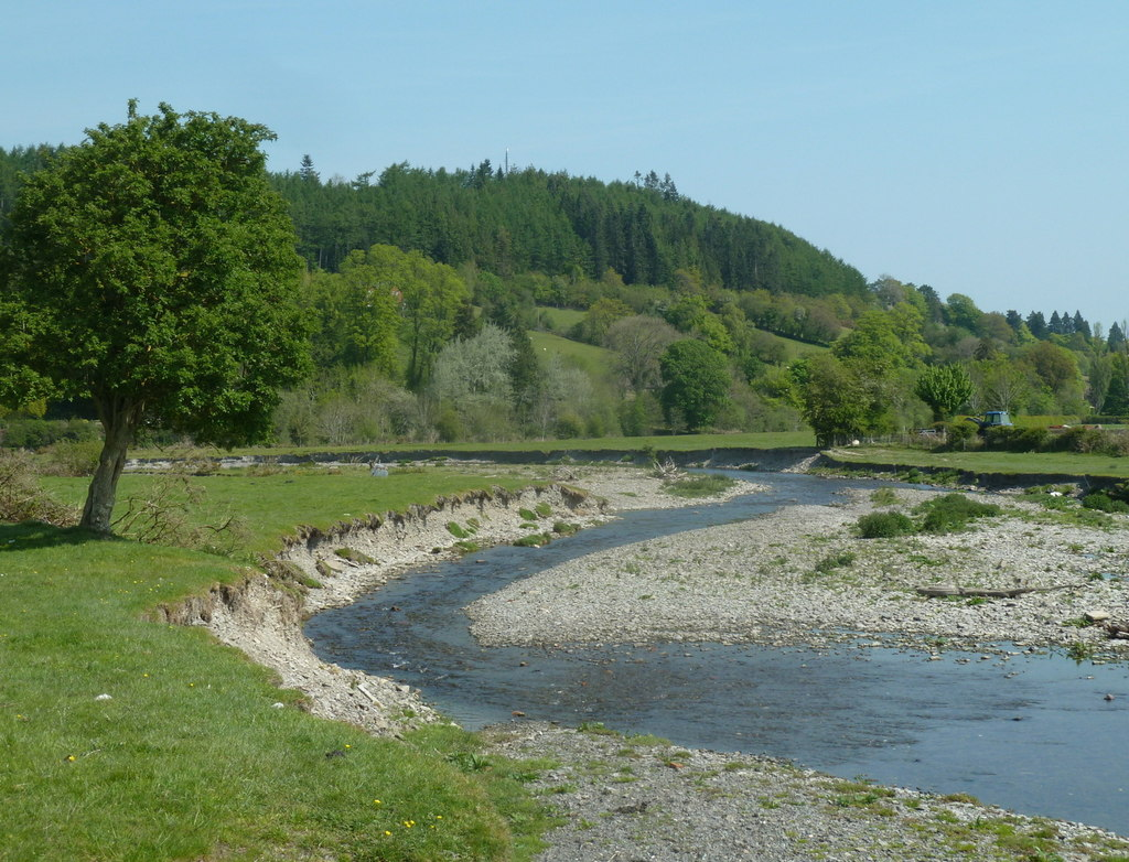 Afon Dulas below the ford. Beautiful river scenery close to meeting point with the Severn. Relief after a dry crossing - able to continue the planned walk without diverting back to Llanidloes and starting again.